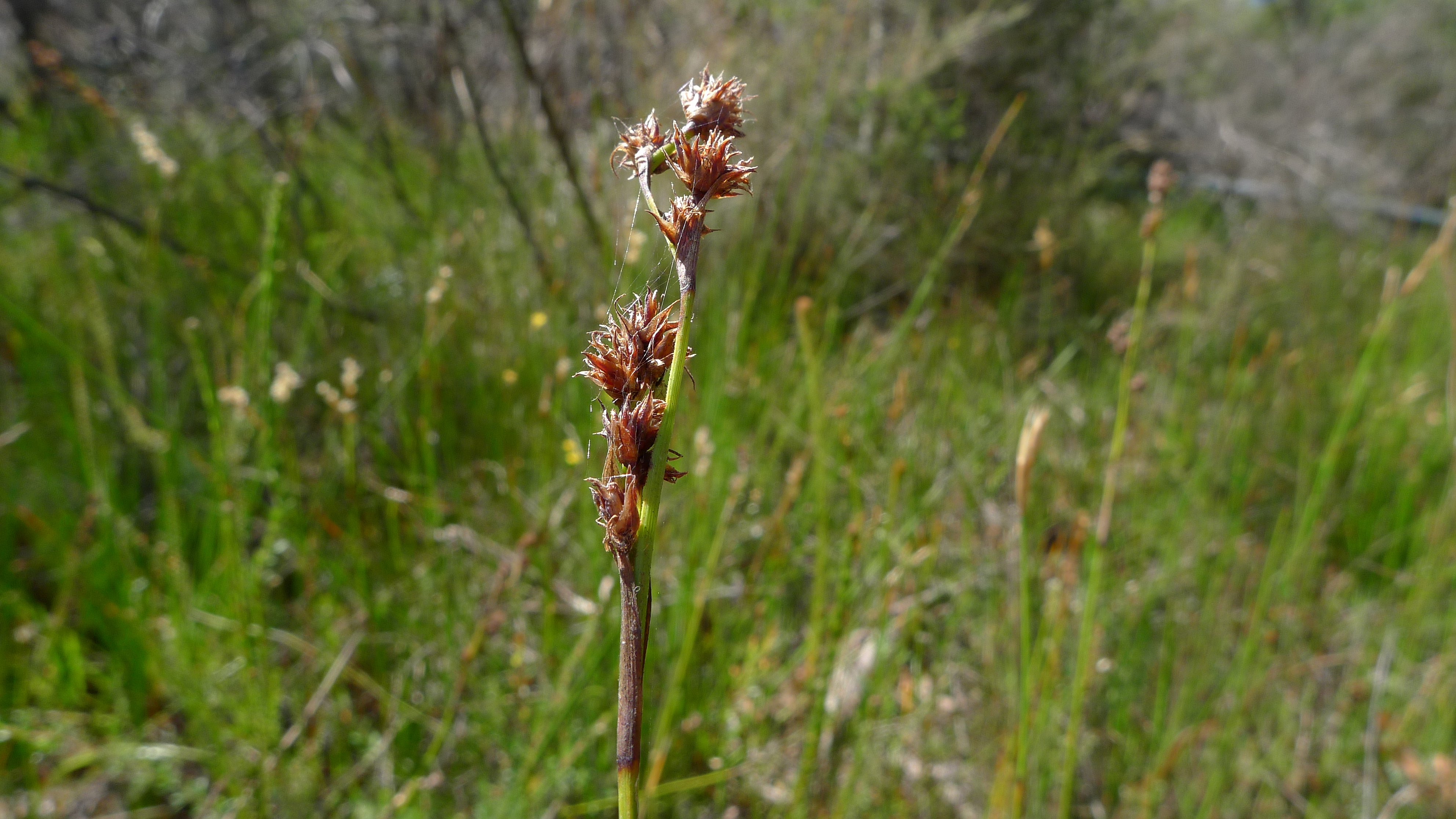 Hairy Bog-rush, Schoenus villosus. Dharawal National Park, NSW Australia, January 2014.